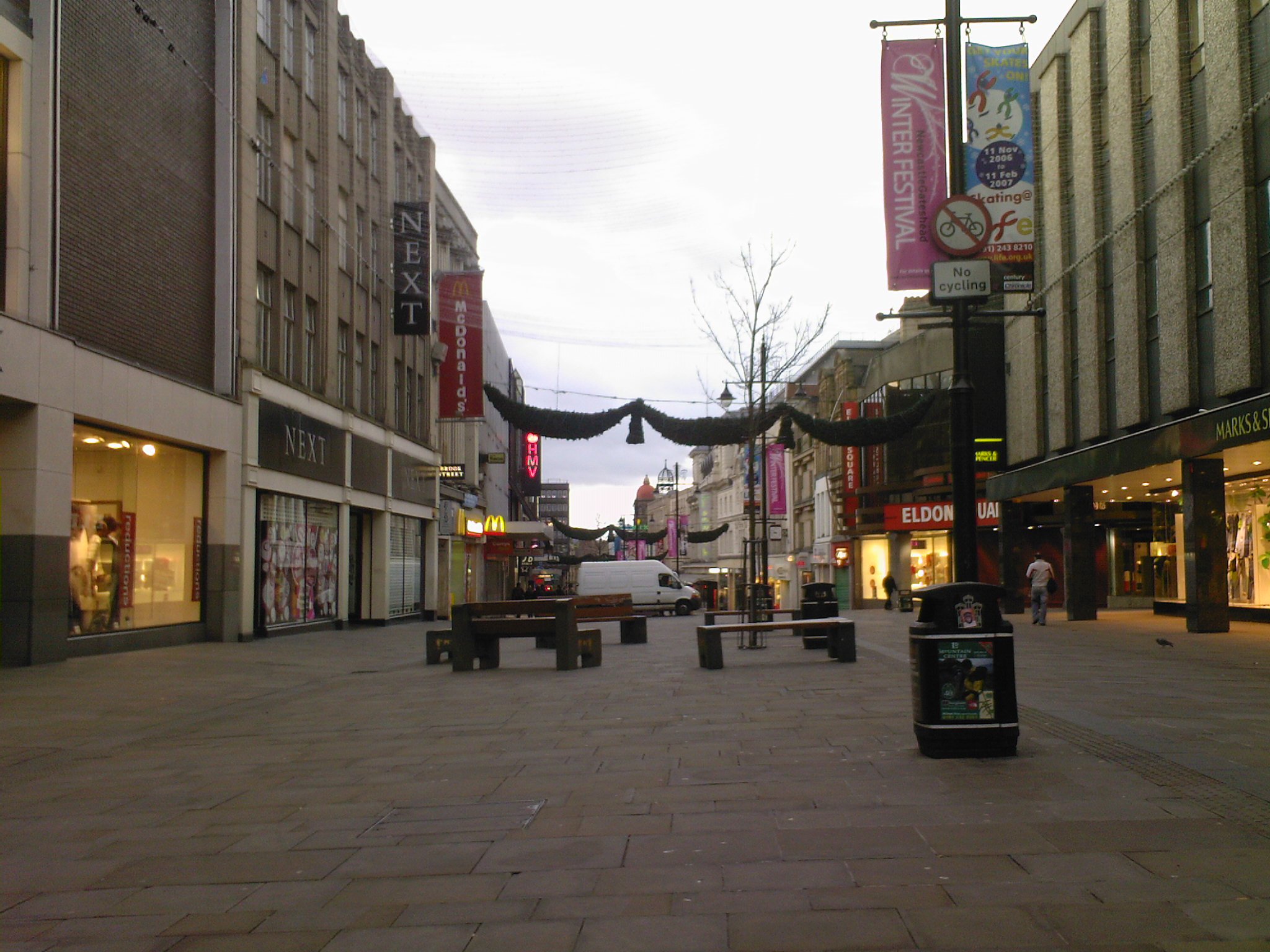 Northumberland Street in the morning